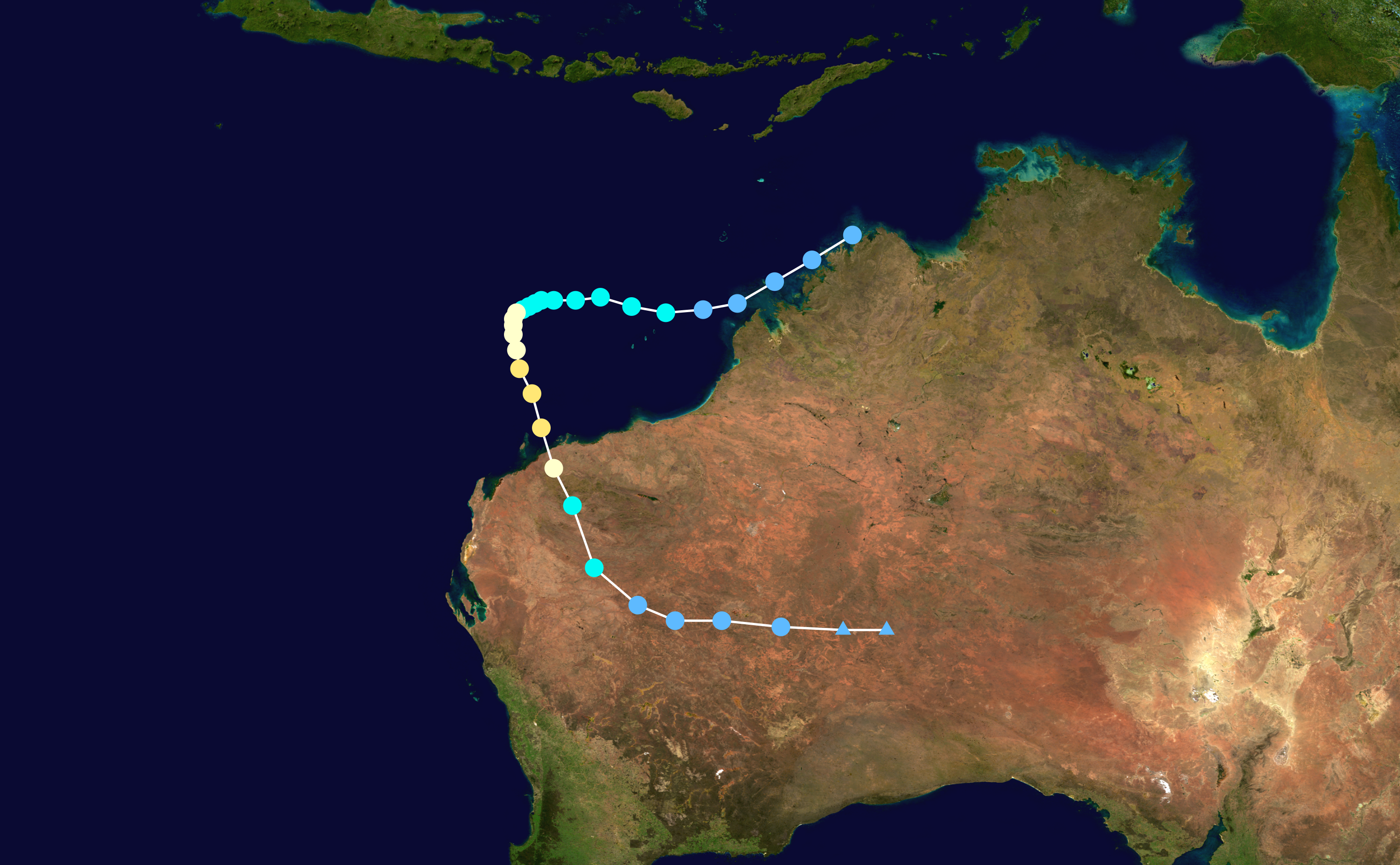 Cyclone Ilona (1988) track. Uses the color scheme from the Saffir-Simpson Hurricane Scale.